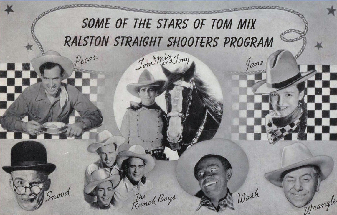 Postcard sent in response to mail from the Ralston-Purina sponsored Tom Mix radio program.